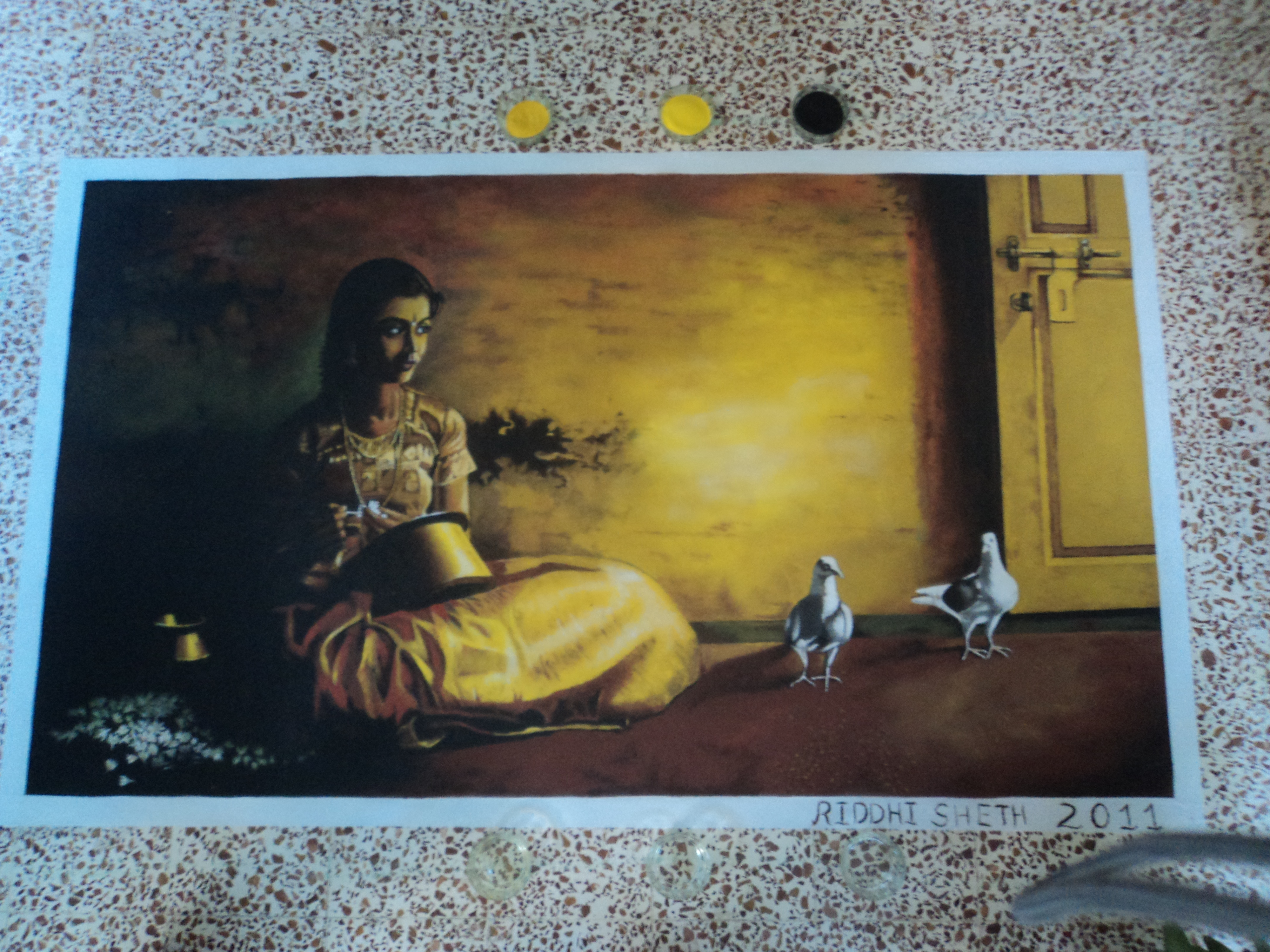 rangoli i made at my residence at diwali 2011